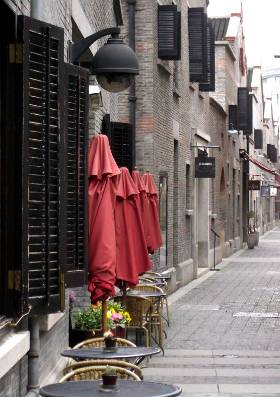 The Xintiandi area in Shanghai, China.